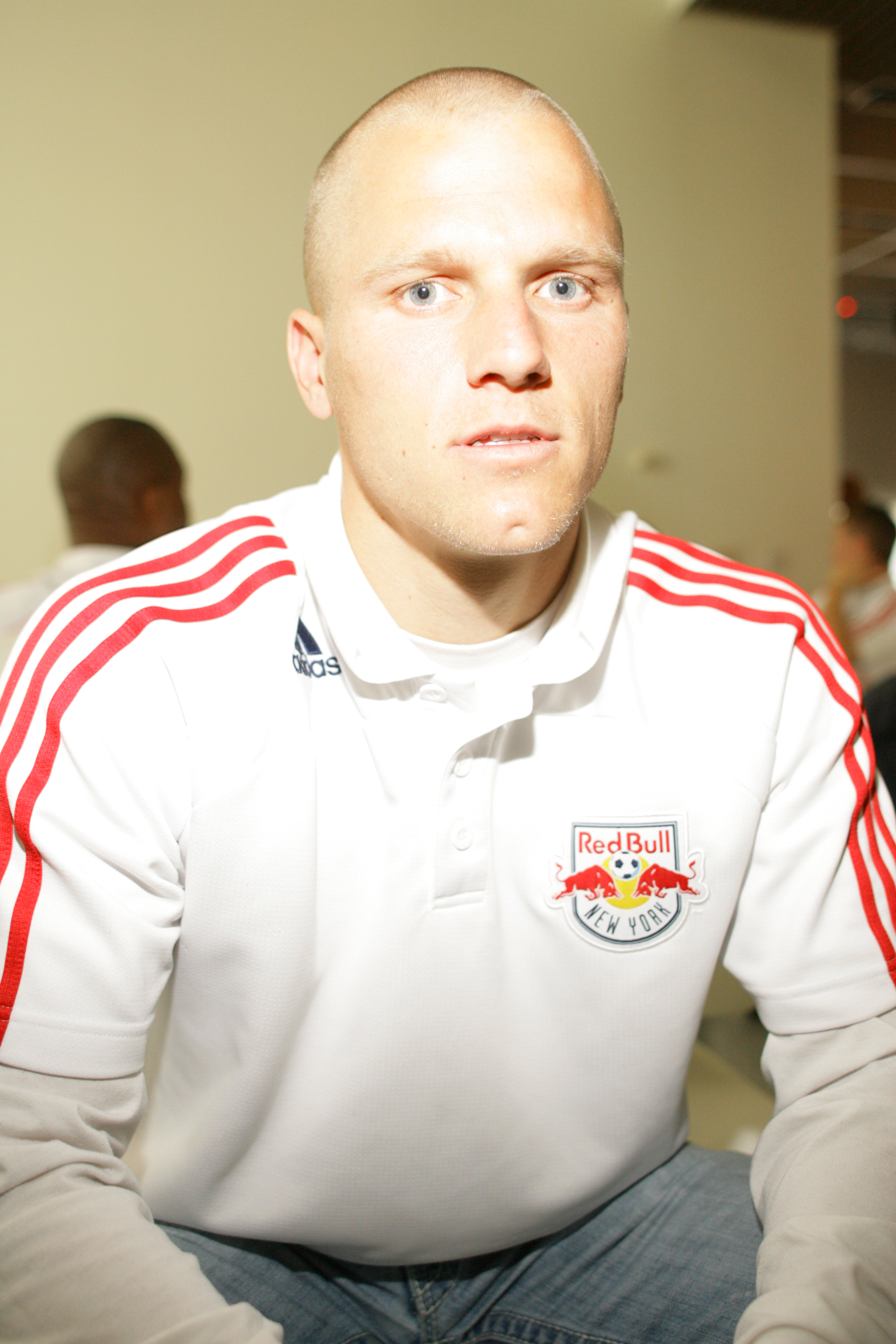 Seth Stammler RedBull NY